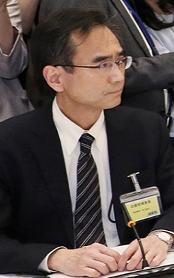 Takaji Wakita, Chairman of the Novel Coronavirus Expert Meeting, Novel Coronavirus Response Headquarters, Shigeru Omi, Vice-Chairman of the Novel Coronavirus Expert Meeting, Novel Coronavirus Response Headquarters, Nobuhiko Okabe, Satoshi Kamayachi, Akihiko Kawana and Motoi Suzuki, Members of the Novel Coronavirus Expert Meeting, Novel Coronavirus Response Headquarters, attended a meeting of the Novel Coronavirus Expert Meeting, Novel Coronavirus Response Headquarters at the Prime Minister's Official Residence in Chiyoda Ward, Tōkyō Metropolis on February 16, 2020.